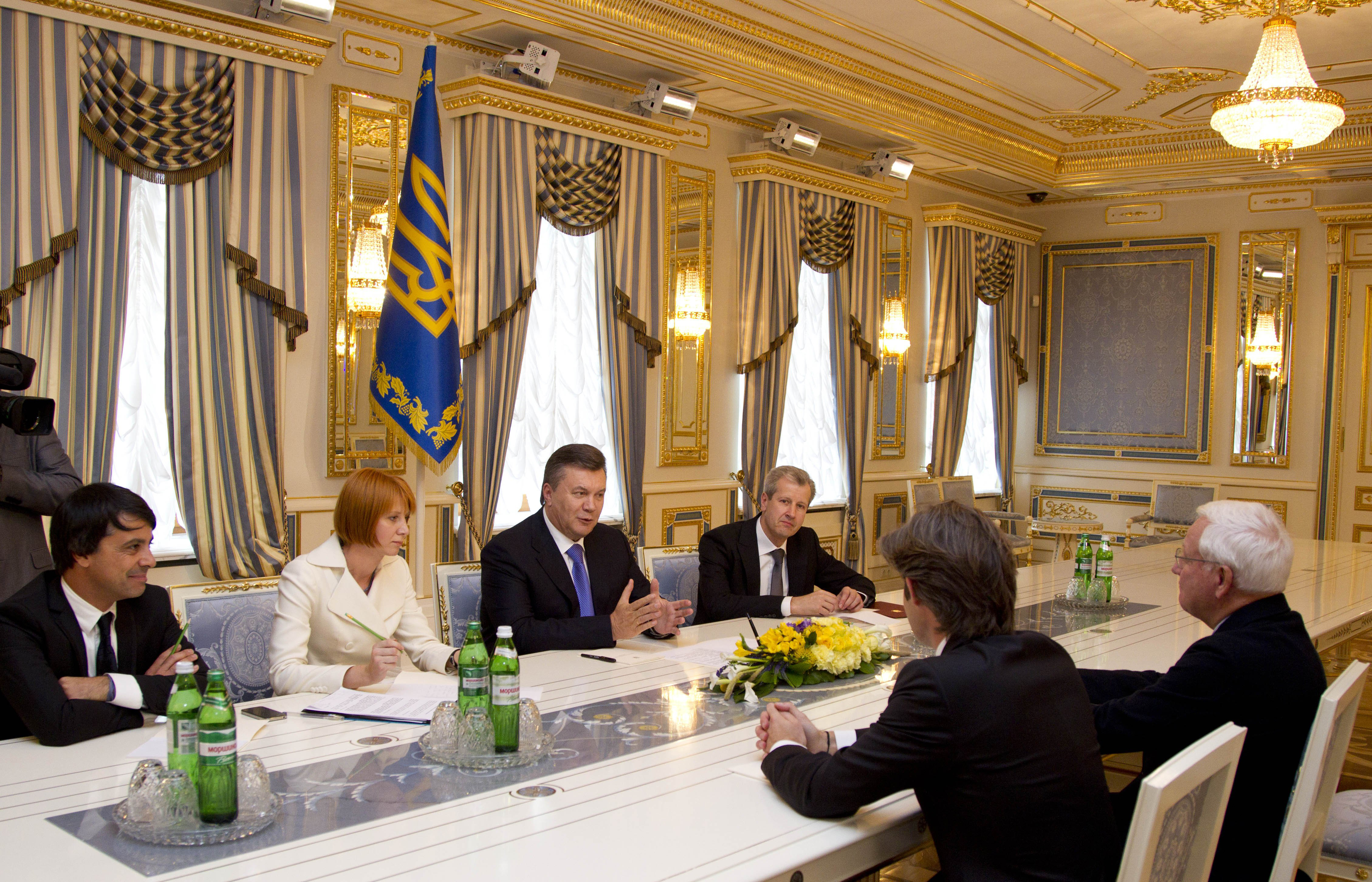 Walid Harfouch, Ukrainian President Viktor Yanukovych, Pier Luigi Malesani (Chairman of the Supervisory Board of Euronews) and Michael Peters (CEO of Euronews)